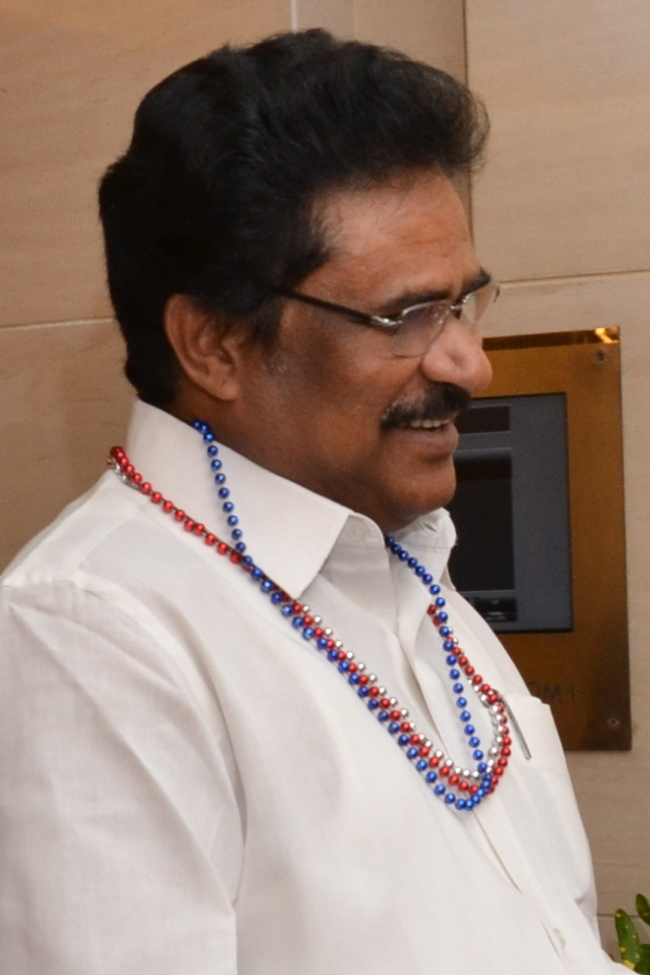 U.S. Consul General, Chennai Jennifer McIntyre hosted a reception to celebrate America’s 236th birthday in Chennai on July 03, 2012. The elite of Chennai comprising businessmen, educationists, actors, bureaucrats and politicians enjoyed the theme music and décor of Louisiana, which is celebrating its 200th year of statehood this year. (Photos by U.S.Consulate General Chennai) Immaculate; and students from Padma Sheshadri School, in celebrating World Environment Day at Marina Beach on June 5, 2012. The event, which included a walk from the Triumph of Labor statue to the Gandhi statue, was organized by the U.S. Consulate General Chennai and Make my Earth Smile Again (MESA), in association with Cognizant Technology Solutions, MARG, The Indo-American Chamber of Commerce(IACC), and the All-India Bank Employees Association (AIBEA). (Photo by U.S. Consulate General Chennai)